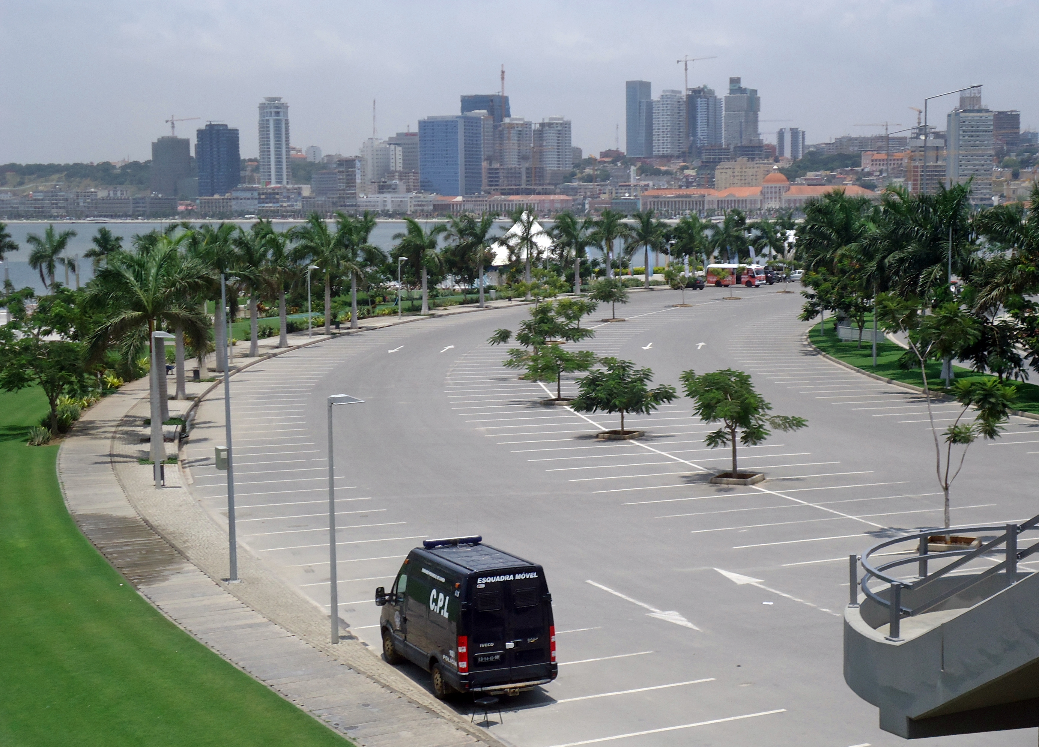 Marginal Avenida 4 de Fevreiro. Photo by Fabio Vanin, Luanda, 2013.